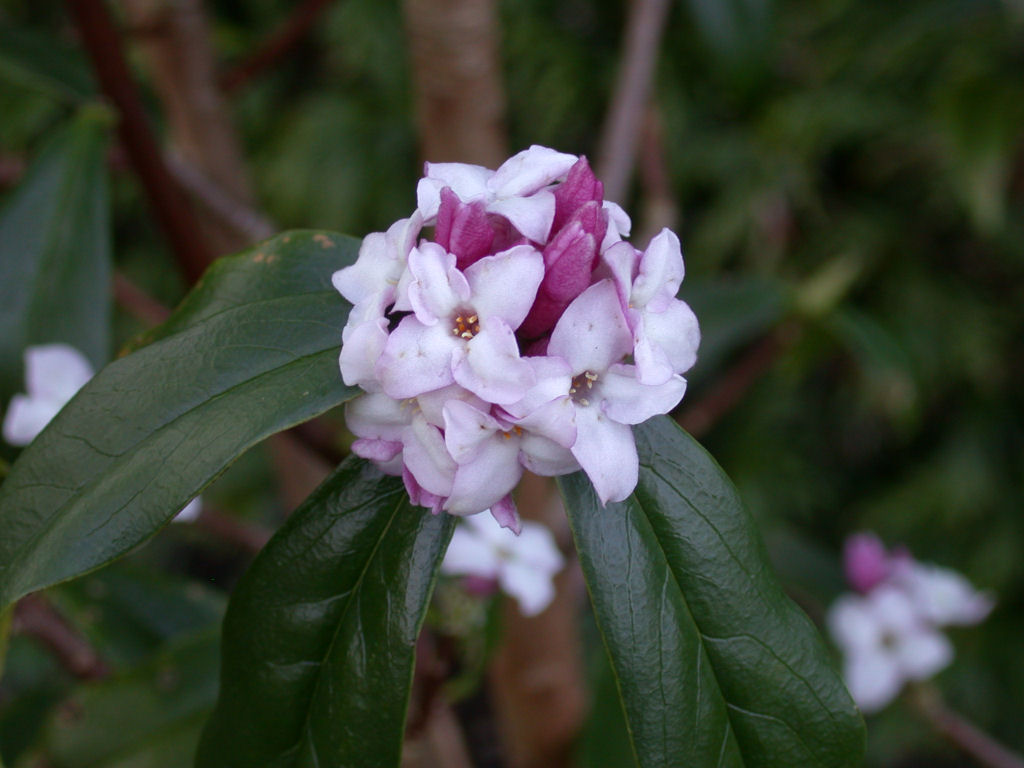 Specimen labelled: "Daphne bholua 'Jacqueline Postill'. Thymelaeaceae. Garden origin."